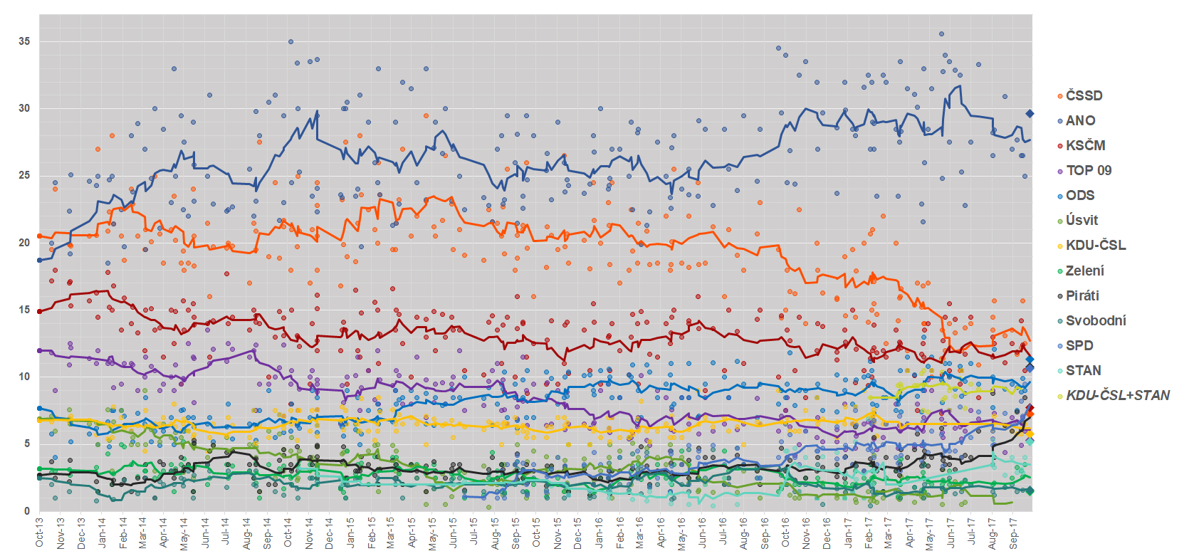 Polls for the Next Czech Legislative Election since Octobre 2013.